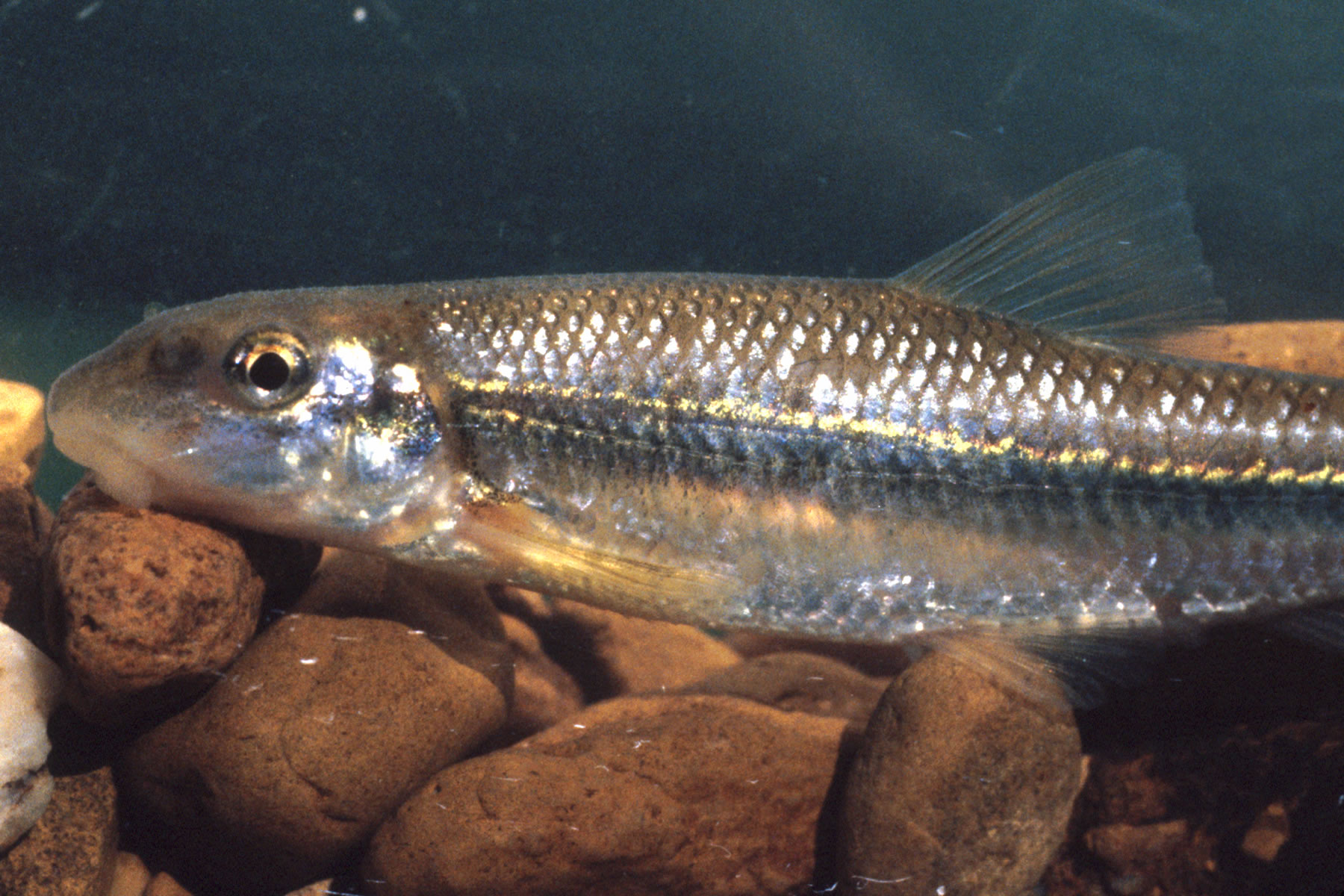 Phenacobius mirabilis USFWS photo